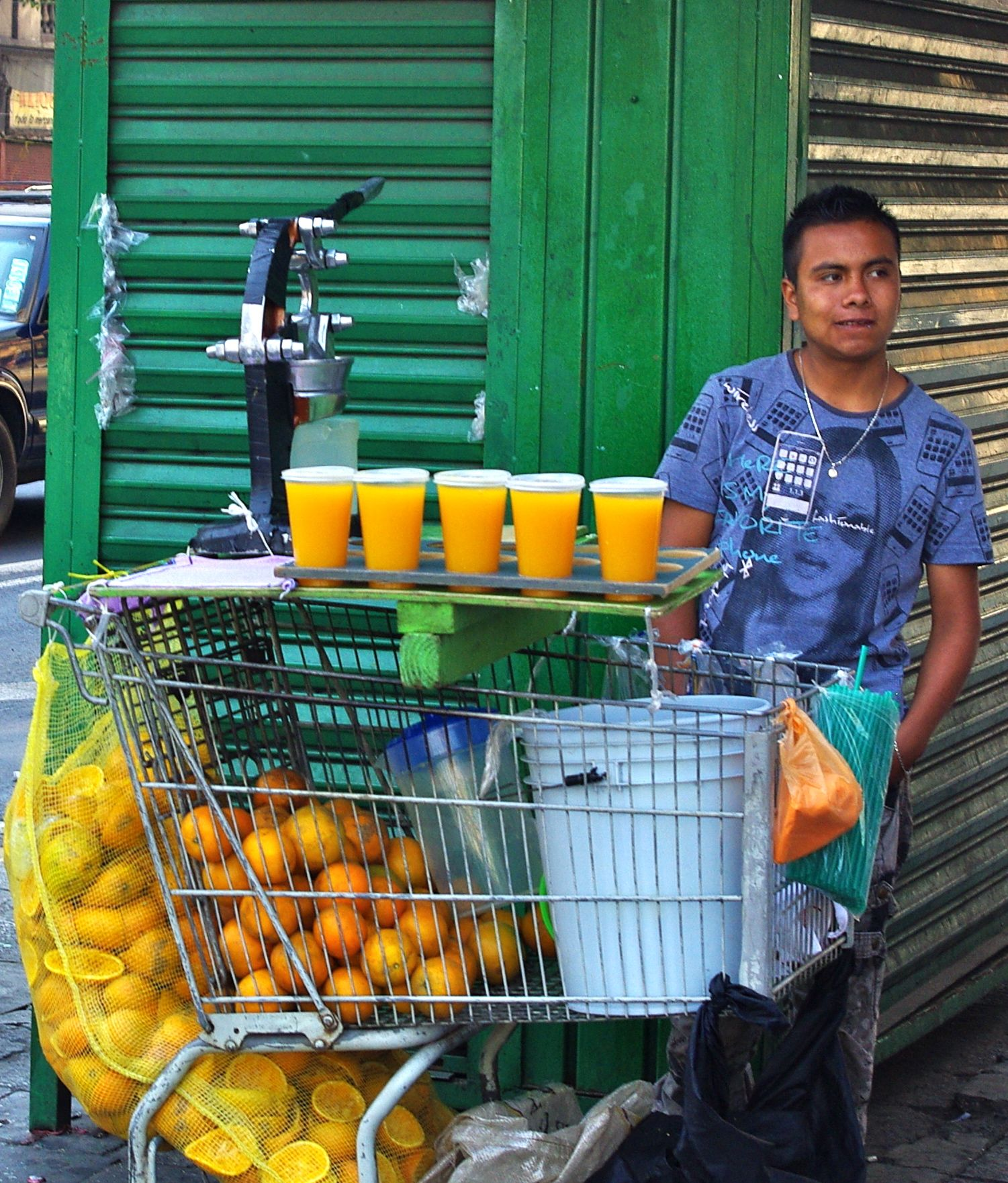 Mexico City merchant with his freshly squeezed orange juice, March 2010 Other information Photo by George Garrigues.